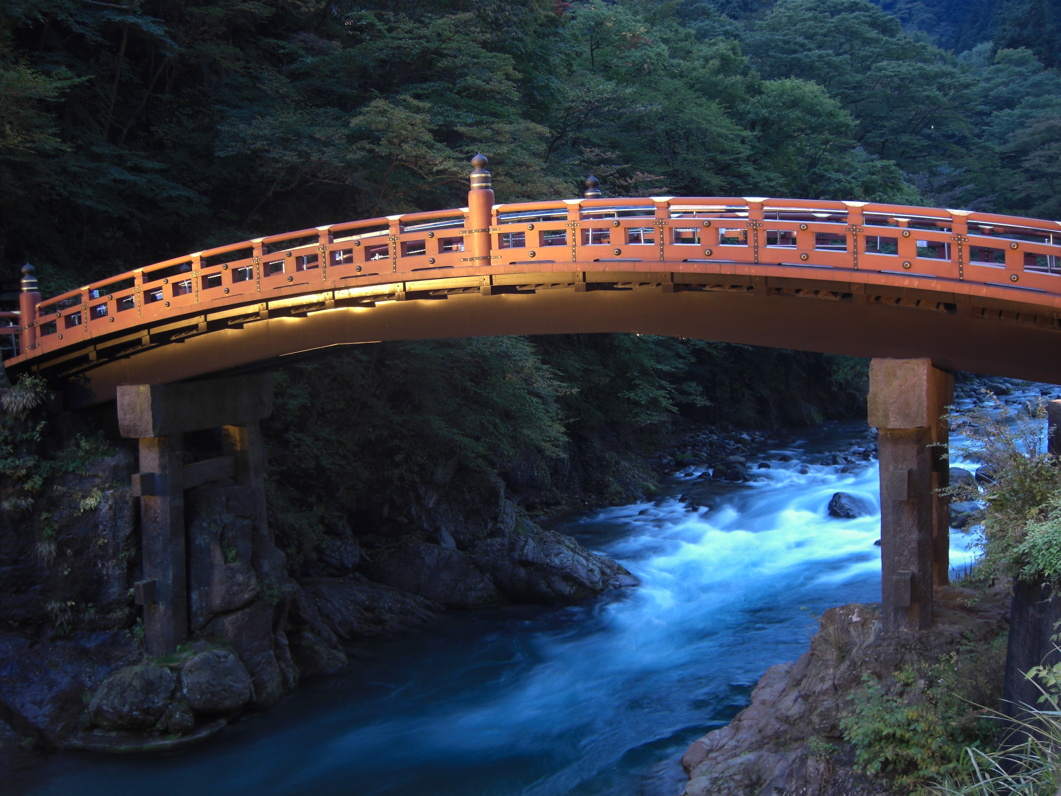 The Shin-kyou bridge which hangs over the Daiya River